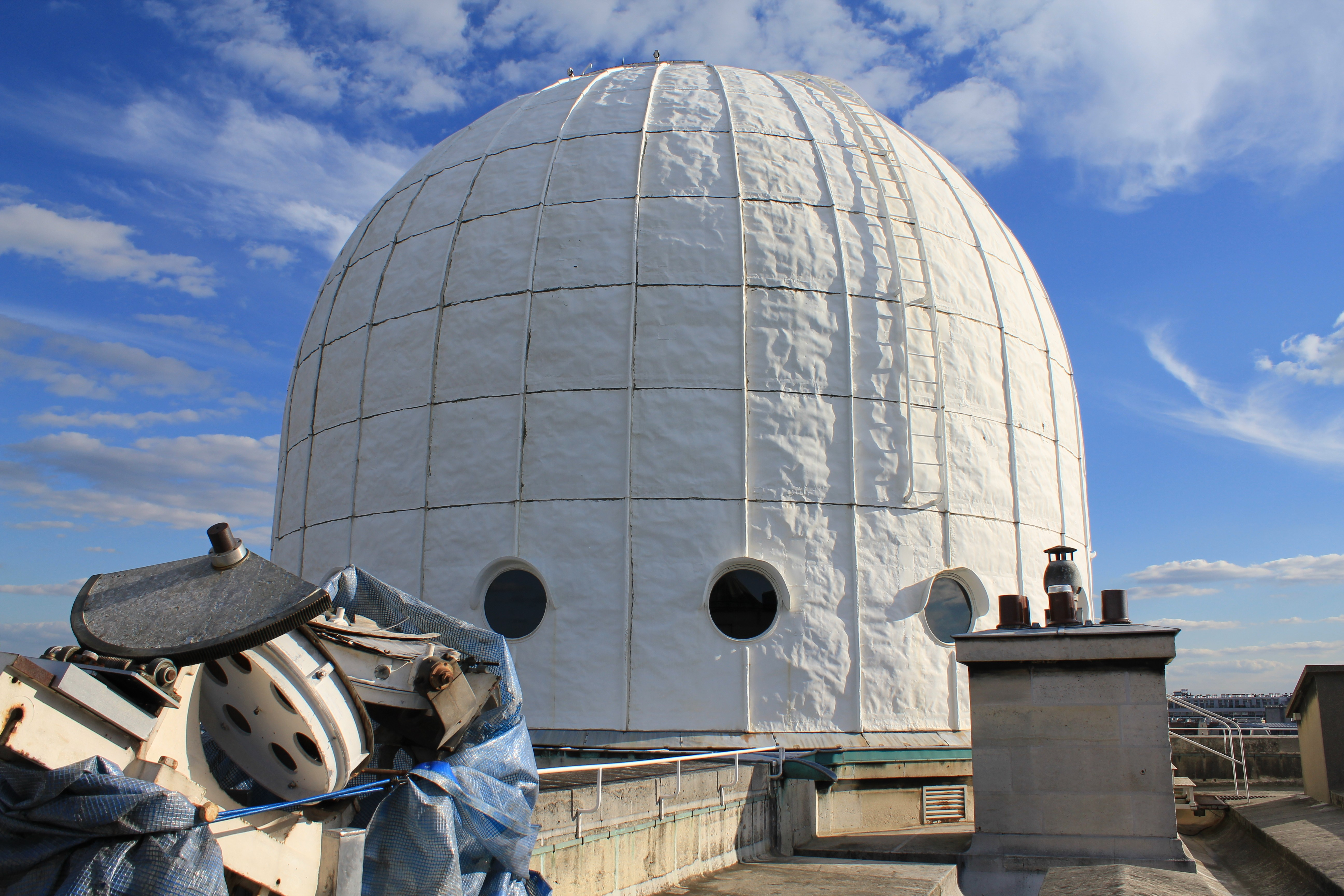 Arago Cupola of Observatoire de Paris, terrace view